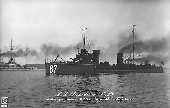 The German torpedo boat V 187, sunk at the battle of Heligoland Bight on 28 August 1914. German Postcard, ca. 1914/15